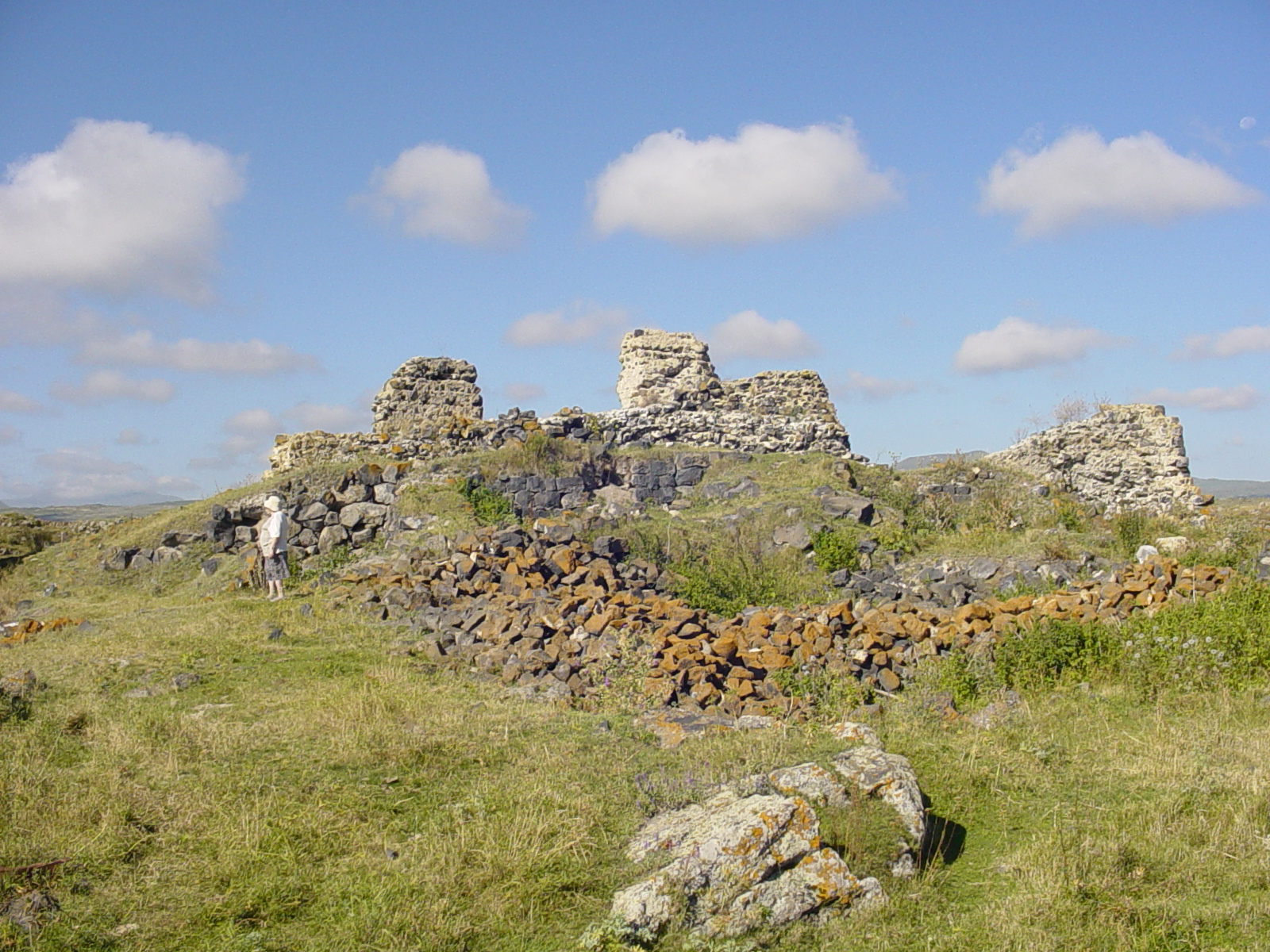 Fortress Spitak Berd (White fortress) (Berdkunk, Aghkala, Ishkhanats Berd), 2-1 mil BC, 10c.